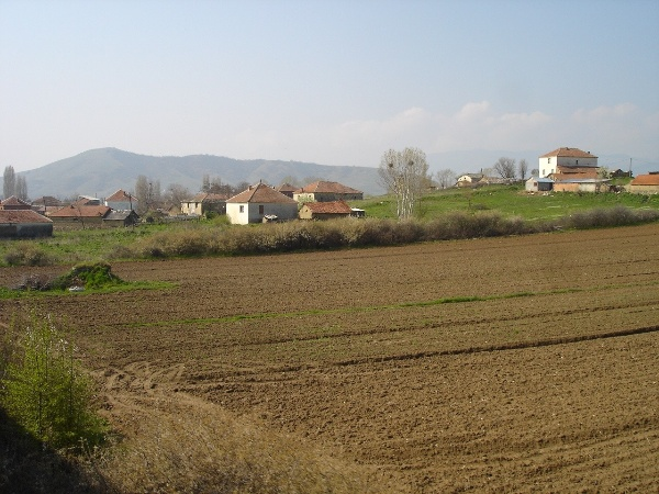 View of a part of the village Trojkrsti, near Prilep, Macedonia